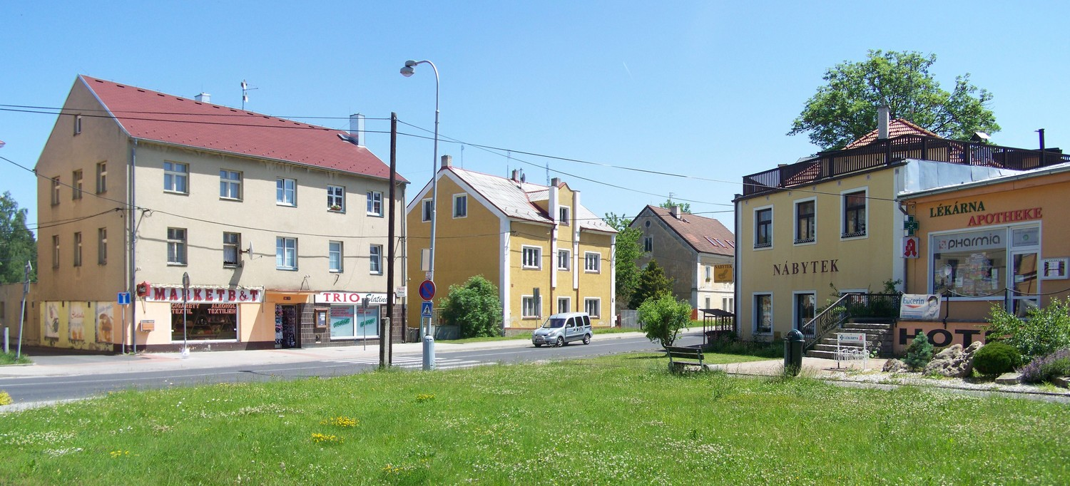 Village of Slatina, today part of town of Františkovy Lázně, Cheb District, Karlovy Vary Region, Czech Republic. (20140608)